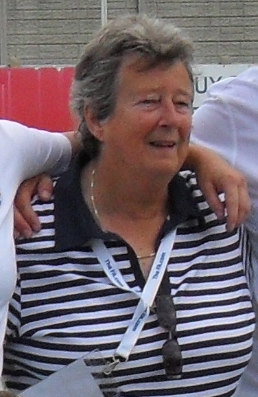 Sylvia Gore in August 2015